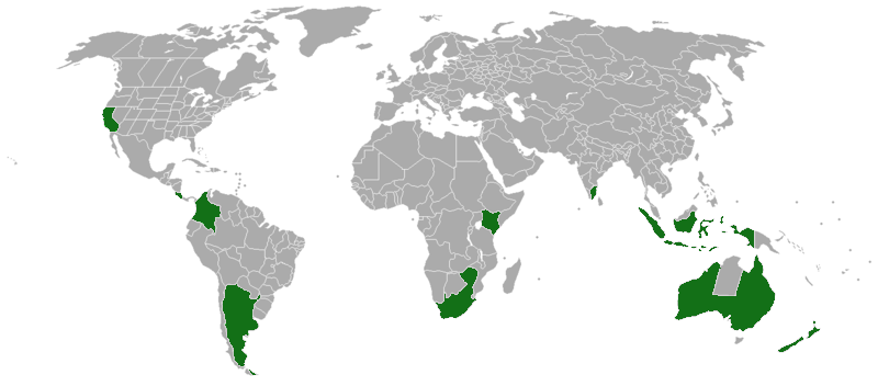 Acacia baileyana range map created using a blank map from the Commons, info from LegumeWeb and the GIMP photo software.